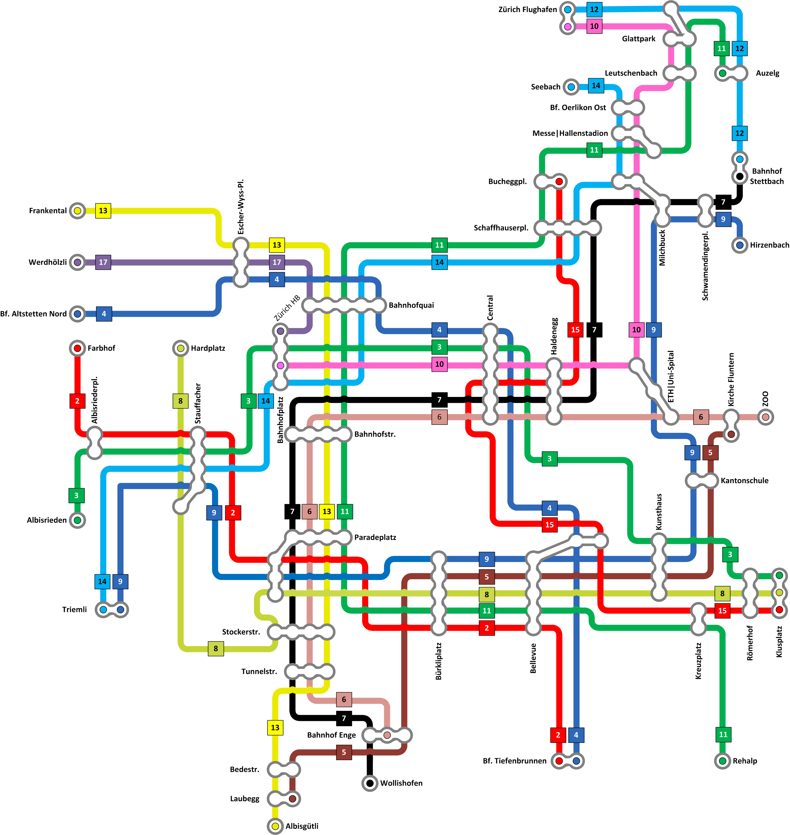 Tram network in Zurich as of 2012. Schematic view.